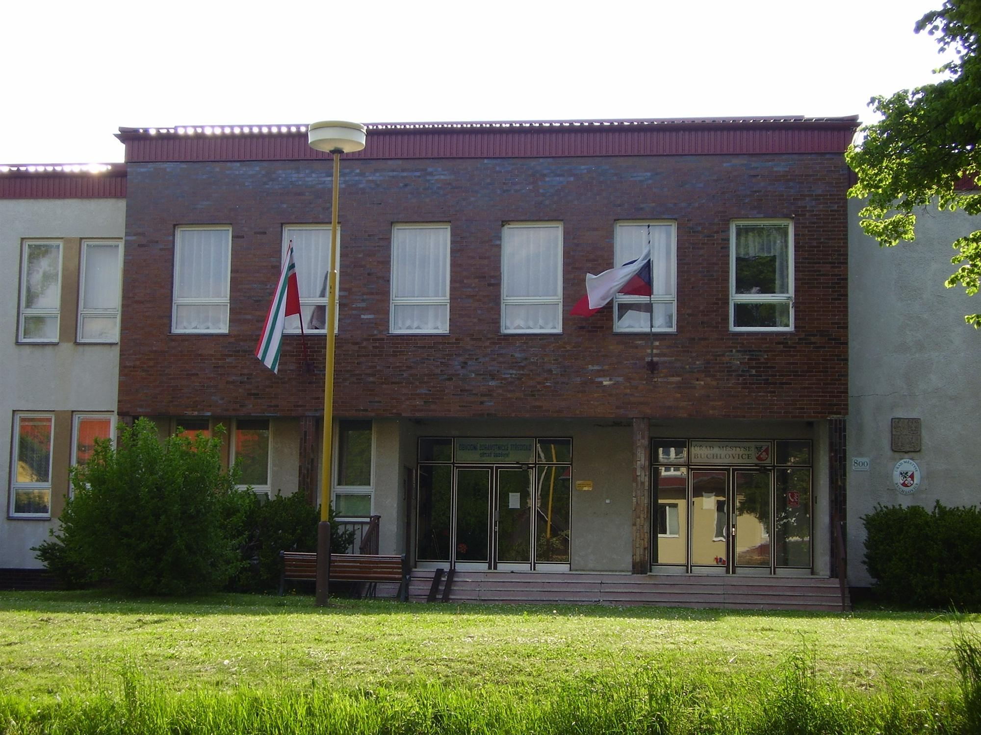 Town hall in Buchlovice, Zlín Region